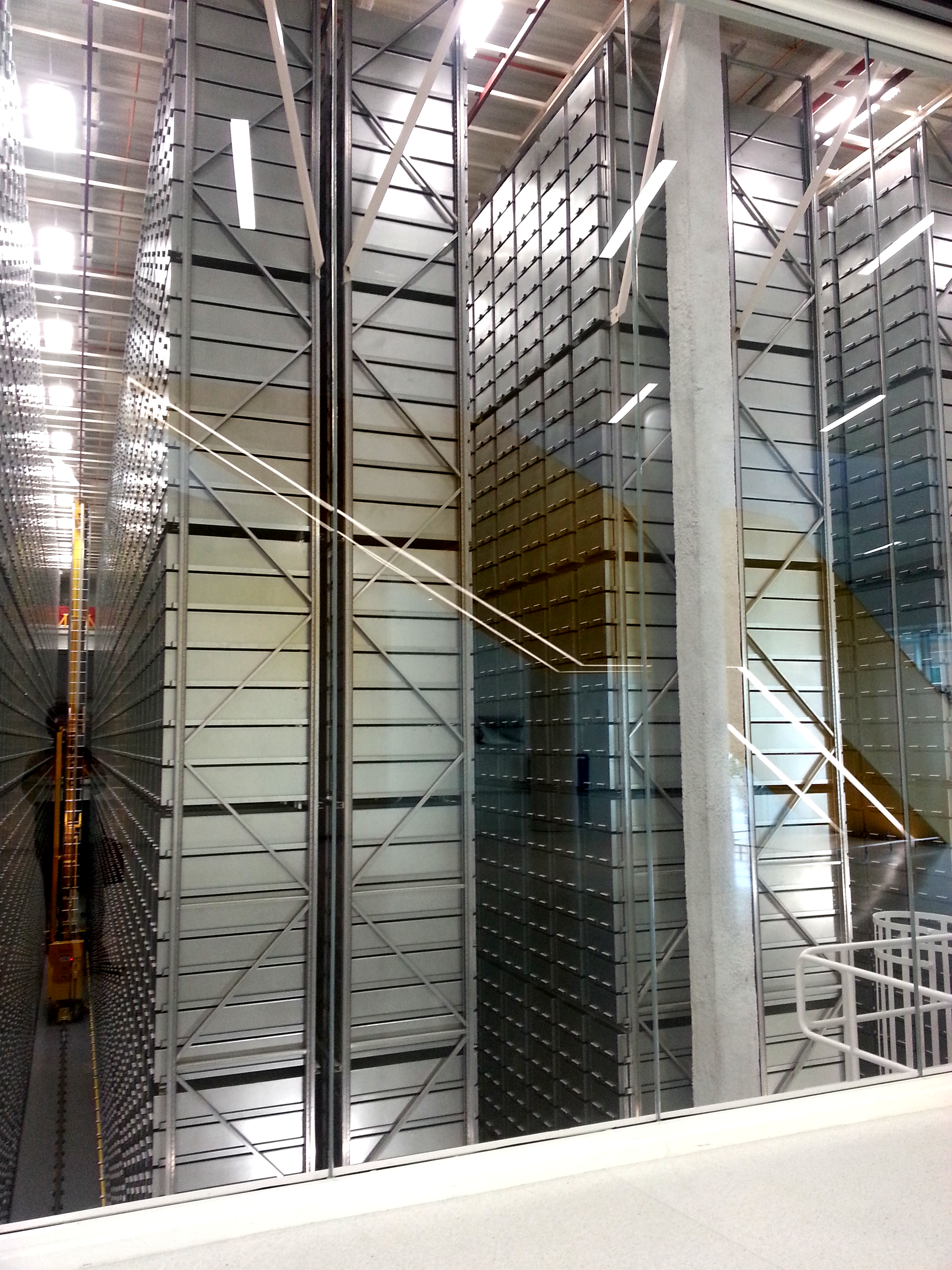 North Carolina State University James B. Hunt Jr. Library automated book retrieval system ("BookBot"). Raleigh, taken 2013-01-09.